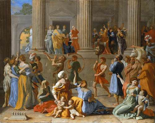 Poussin takes as his starting point two texts from the Book of Samuel, creating one of his most theatrical and elegant compositions. An ancient temple provides the architectural backdrop against which the action is staged. Above the podium of the temple, rhythmically interspersed between the fluted columns, men and women rejoice at David's triumphal entry. A crowd of spectators occupies the foreground and witnesses the event; a woman indicates David to her son, a man points to his forehead showing the exact location of the wound on Goliath's head. The central procession takes place between the two wings of people. Two men, playing trumpets, precede the biblical hero. Young David holds the impaled head of the Philistine giant and marches in front of a general riding a white horse, most likely King Saul. The entire scene is carefully arranged. Groups of three to four figures punctuate the composition, and the colours of their outfits - pale azure, rich mustard yellow, jade green - provide the chromatic structure of the painting. Poussin stages the figures overlapping in a meticulously orchestrated arrangement. The only isolated character is the main actor, David, who stands out in his fiery robe, highlighted by the sudden interval created, almost as if by accident, by the unyielding crowds. The dating of the canvas is highly debated. X-ray analysis shows that the composition was changed several times, both in the background architecture and in the foreground figures. While scholars have believed this proves a particularly long gestation for the painting (from the mid 1620s to the early 1630s) it is more likely that the Triumph of David did not necessarily remain in Poussin's workshop over several years but, instead, was probably carefully worked out in the early 1630s until the artist was happy with the final composition.